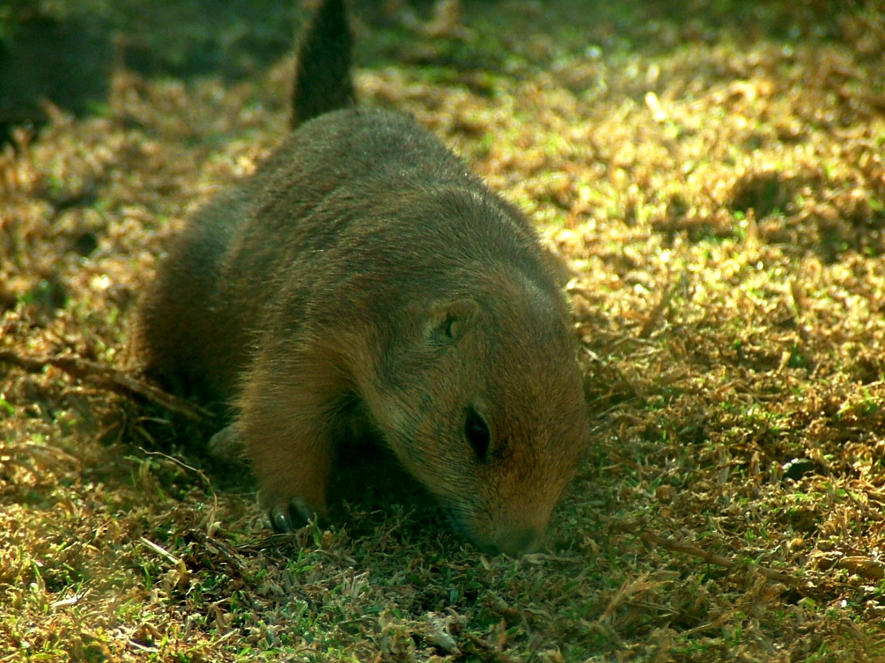 A Black-tailed Prairie Dog (Cynomys ludovicianus) at the Jerusalem Biblical Zoo.